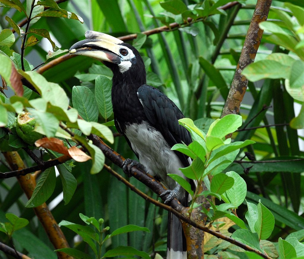 Anthracoceros albirostris Location: Came for lunch at my backyard.